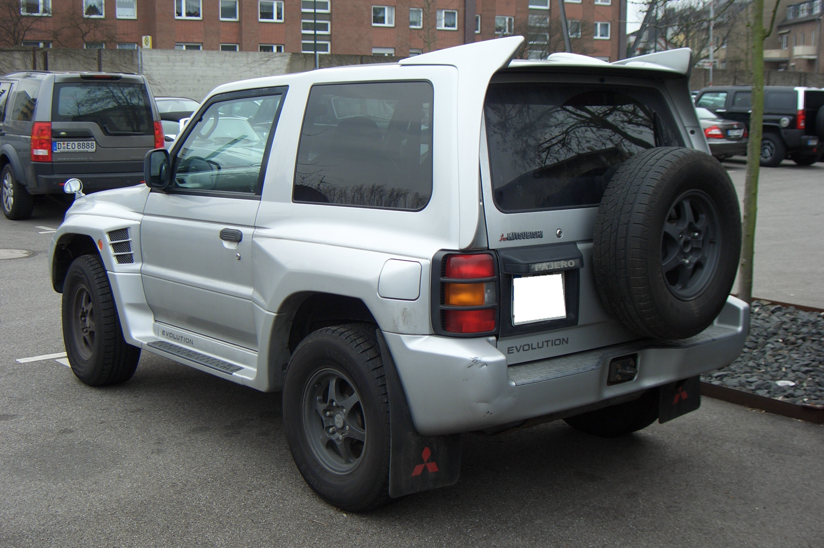 Mitsubishi Pajero Evolution (V55W), street version, 1997-1999